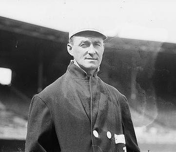 Depicted person: Buck O'Brien – Major League Baseball pitcher